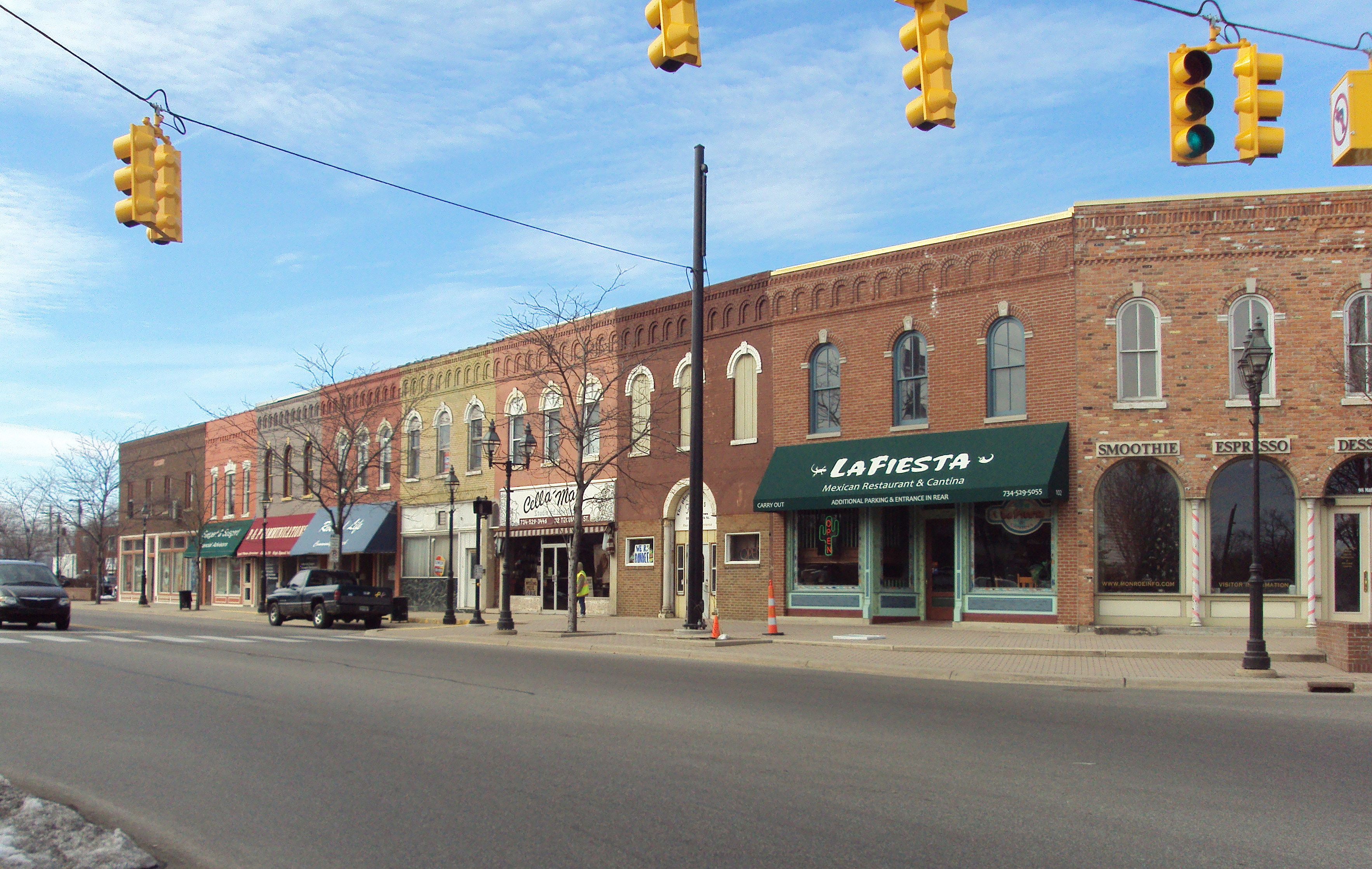 Dundee Historic District along M-50